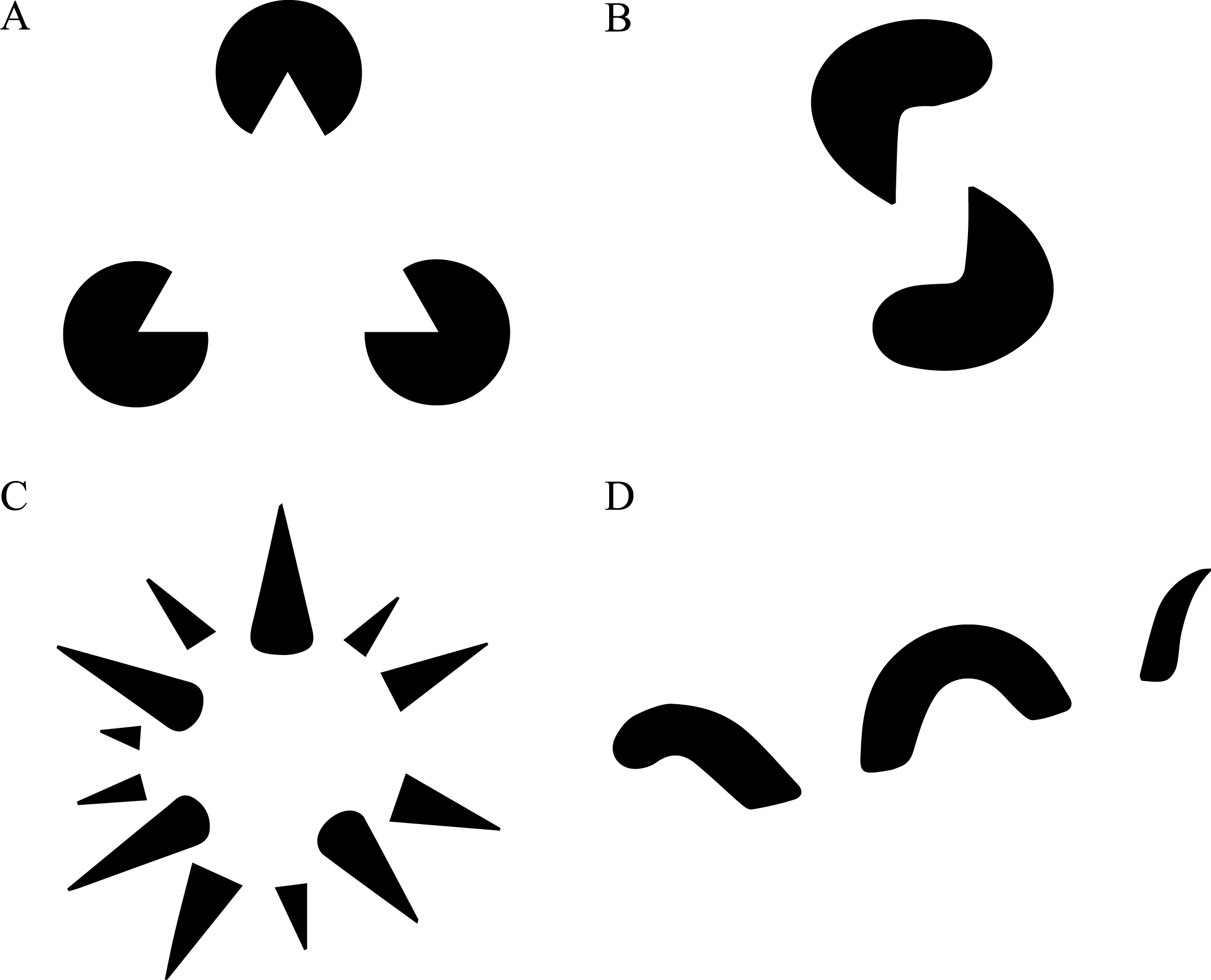 Demonstration of reification in perception from Lehar S. (2003) The World In Your Head, Lawrence Erlbaum, Mahwah, NJ. p. 52, Fig. 3.3, uploaded by the author. A: Standard Kanizsa triangle. B: Peter Tse's Volumetric Worm. C: Idesawa's Spiky Sphere. D: Peter Tse's Sea Monster.